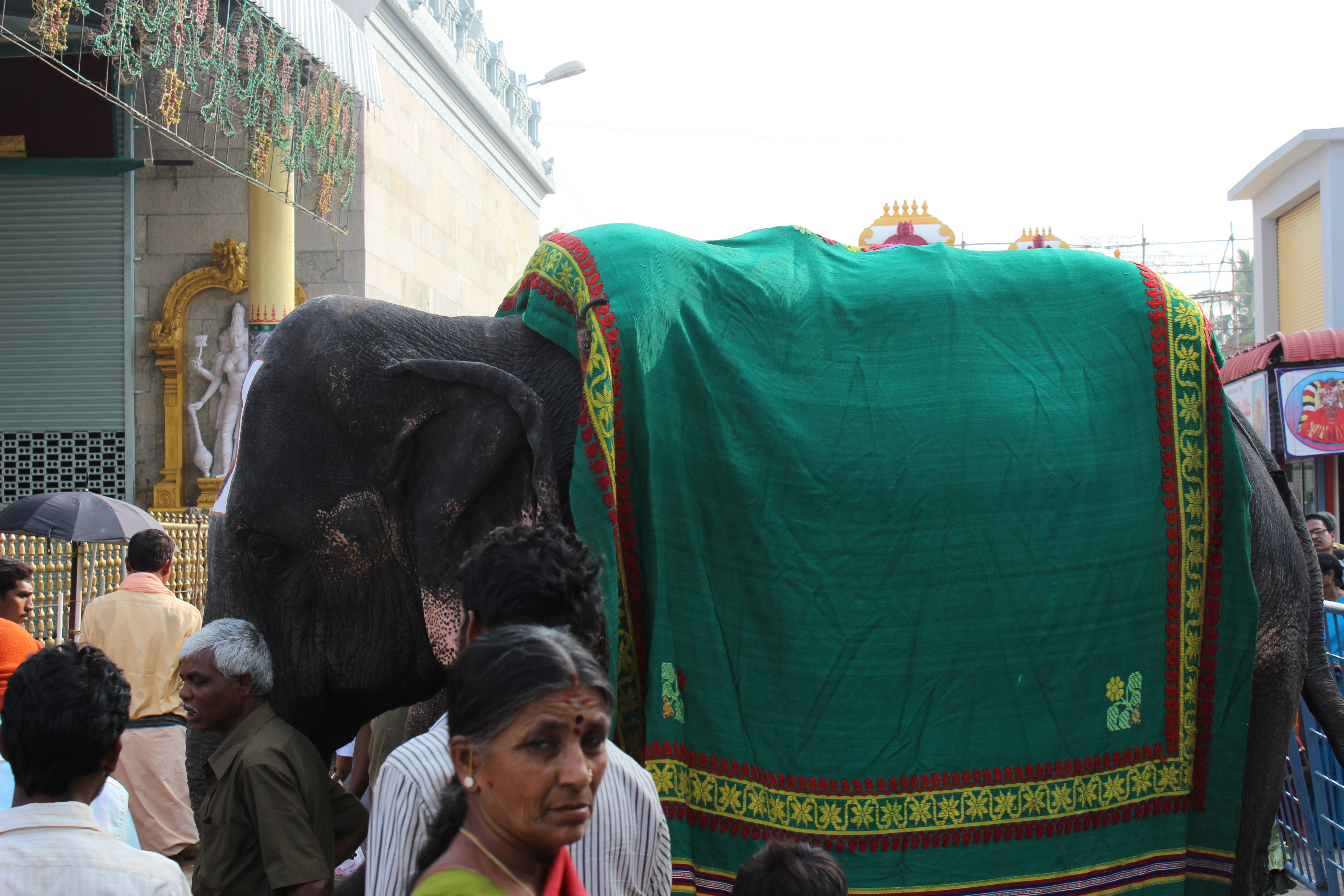 Thiruchanur